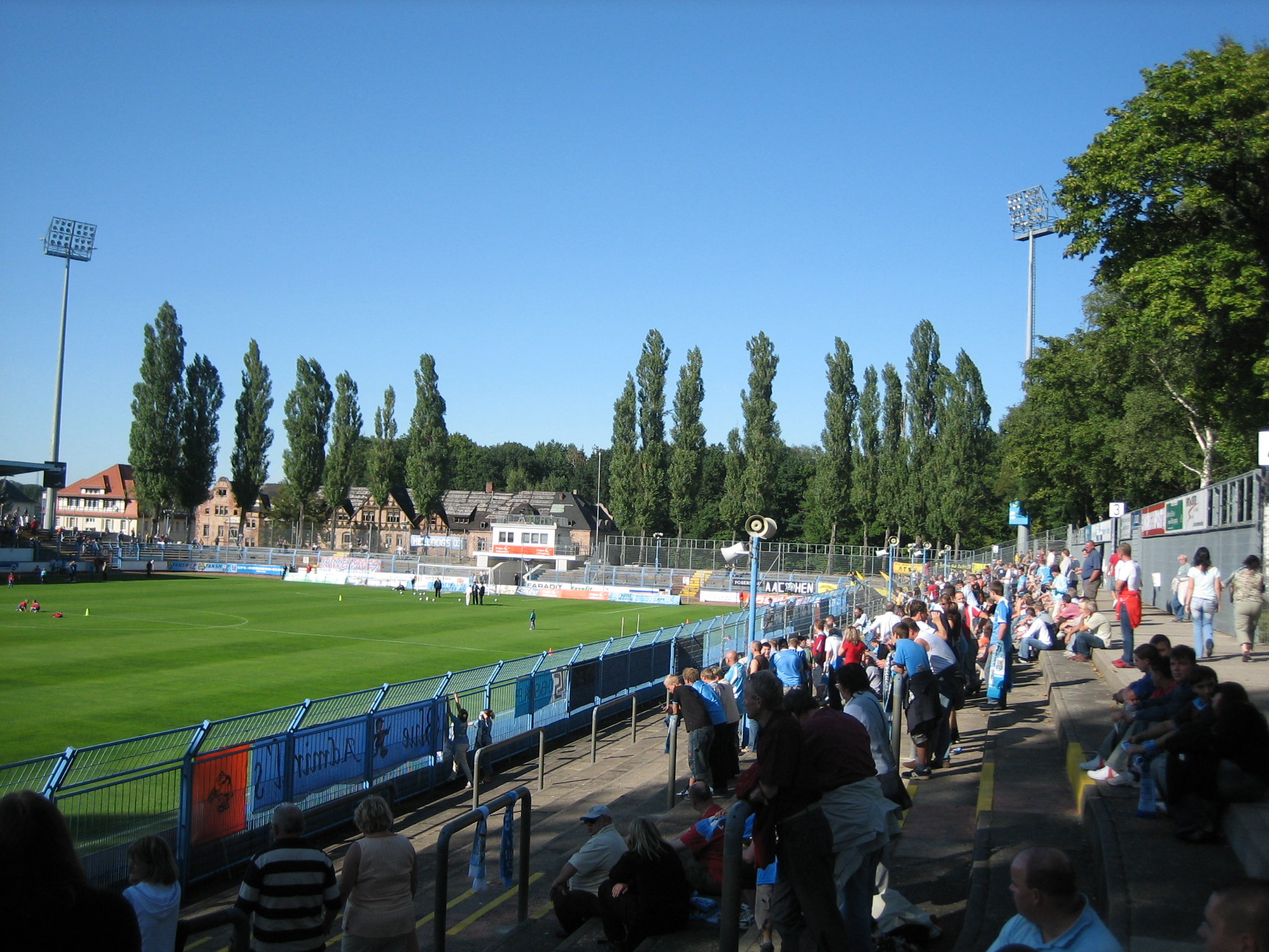 Inside view of the Stadion an der Gellertstraße in Chemnitz, Germany. This picture was taken about one hour prior kick off of the First round DFB-Cup match of Chemnitzer FC vs. Alemannia Aachen.